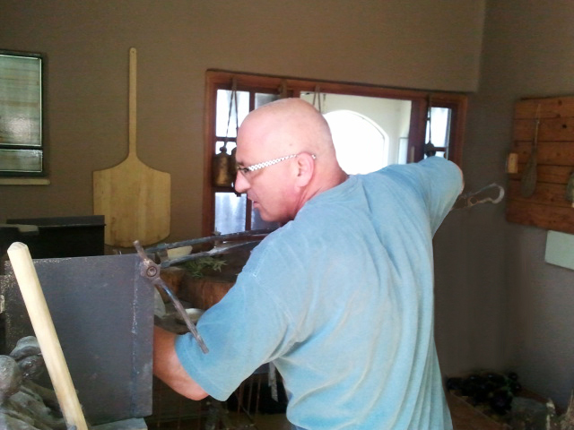 Chef and baker Erev Komarovsky prepares focaccia in a tabun (clay oven)